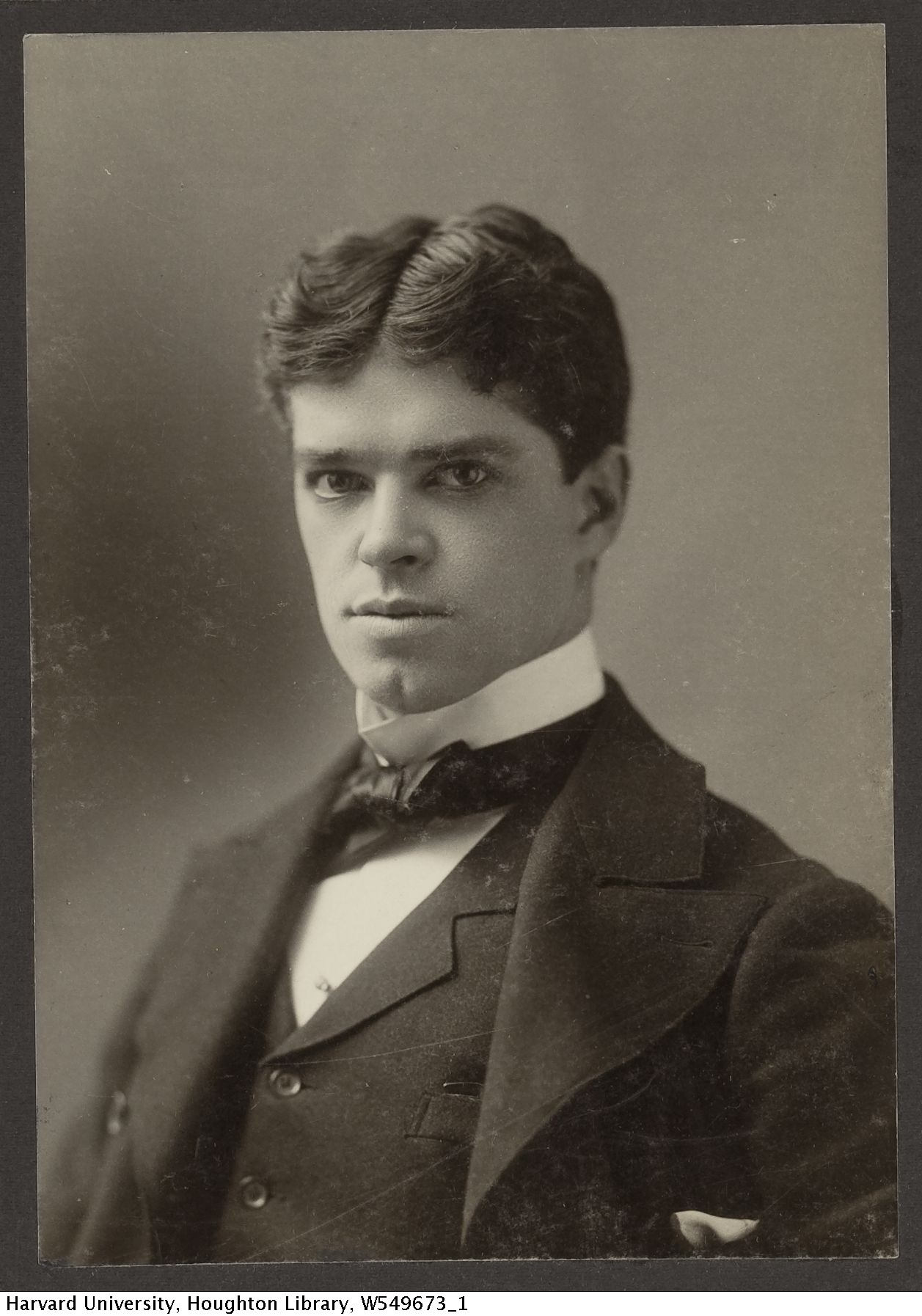 Cabinet card image of American silent film actor Gus Pixley (1864-1923). TCS 1.798, Harvard Theatre Collection, Harvard University